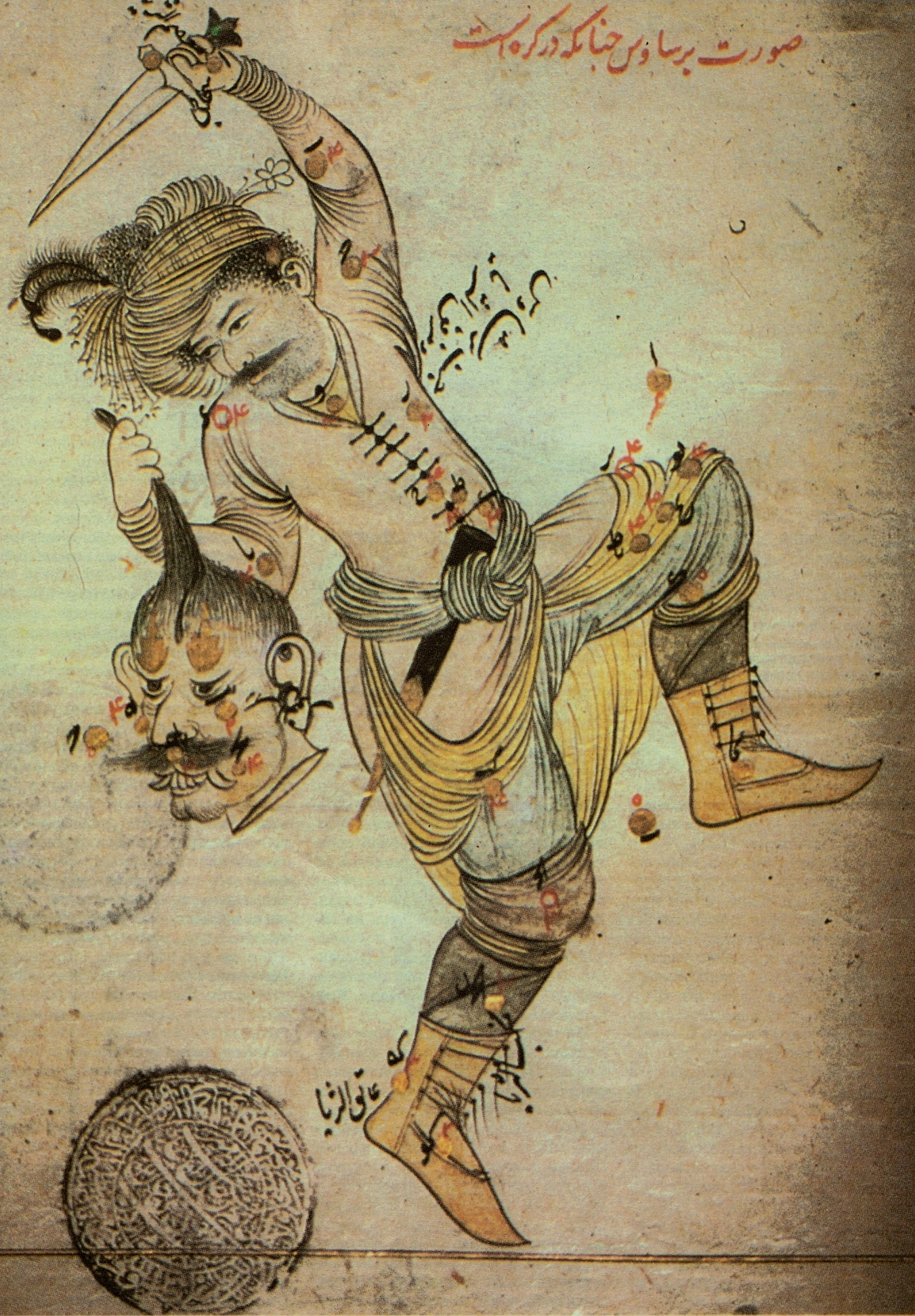 Persian astrological manuscript